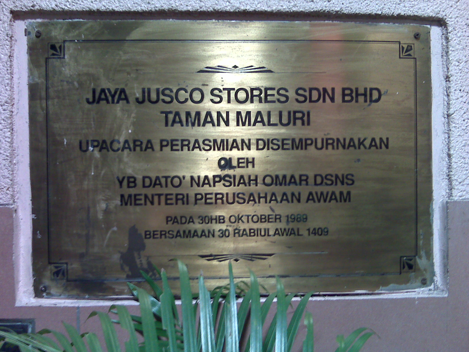 The bronze plague commemorating the opening of Jusco Taman Maluri, Kuala Lumpur in 1989.